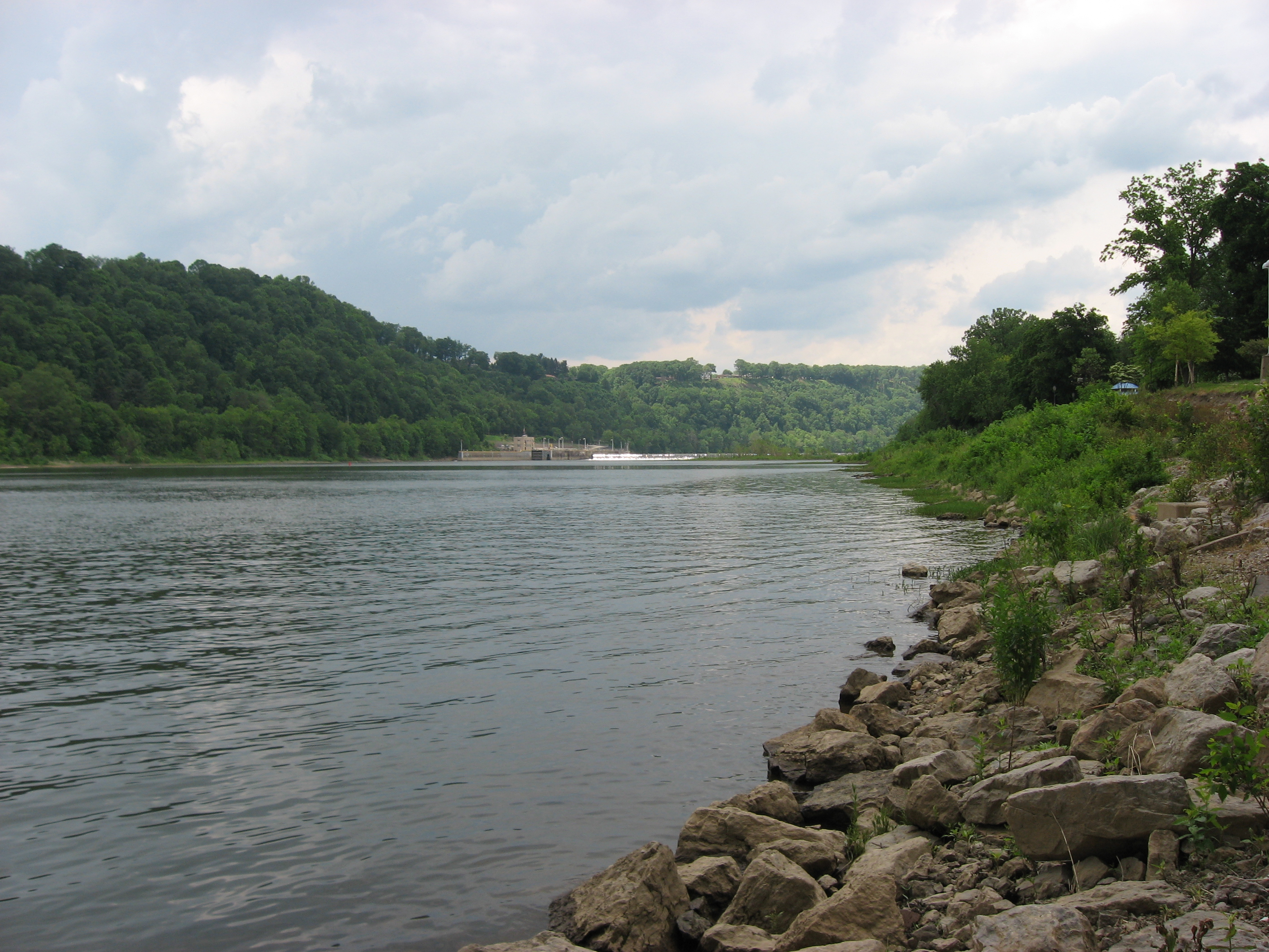 View of the Allegheny River Lock and Dam No. 7, a National Register of Historic Places property on the Allegheny River at Kittanning, Pennsylvania, United States.